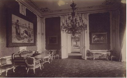 Queen Maria Theresa and her husband's former bedroom, and later smoking salon, in the baroque part of the Royal Castle of Budapest.